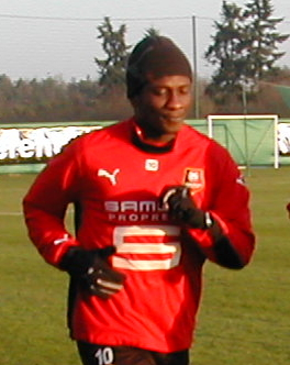 Asamoah Gyan training with Stade Rennais F.C. on December 29, 2008.